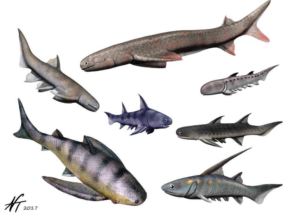 Life restoration of various Acanthodians ("spiny sharks"), Cheiracanthus murchisoni, Acanthodes bronni, Climatius reticulatus, Ischnacanthus gracilis, Parexus recurvus, Gyracanthus formosus, Diplacanthus crassissimus